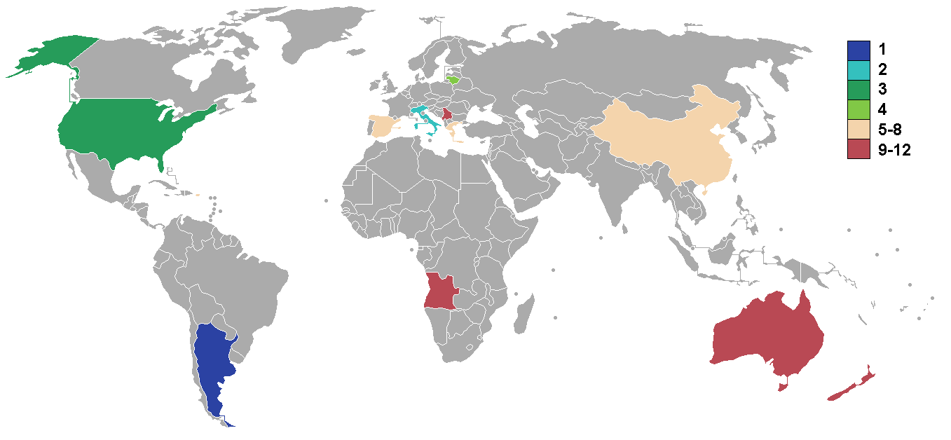 Final finishing places on Basketball at the 2004 Summer Olympics - Men's basketball.